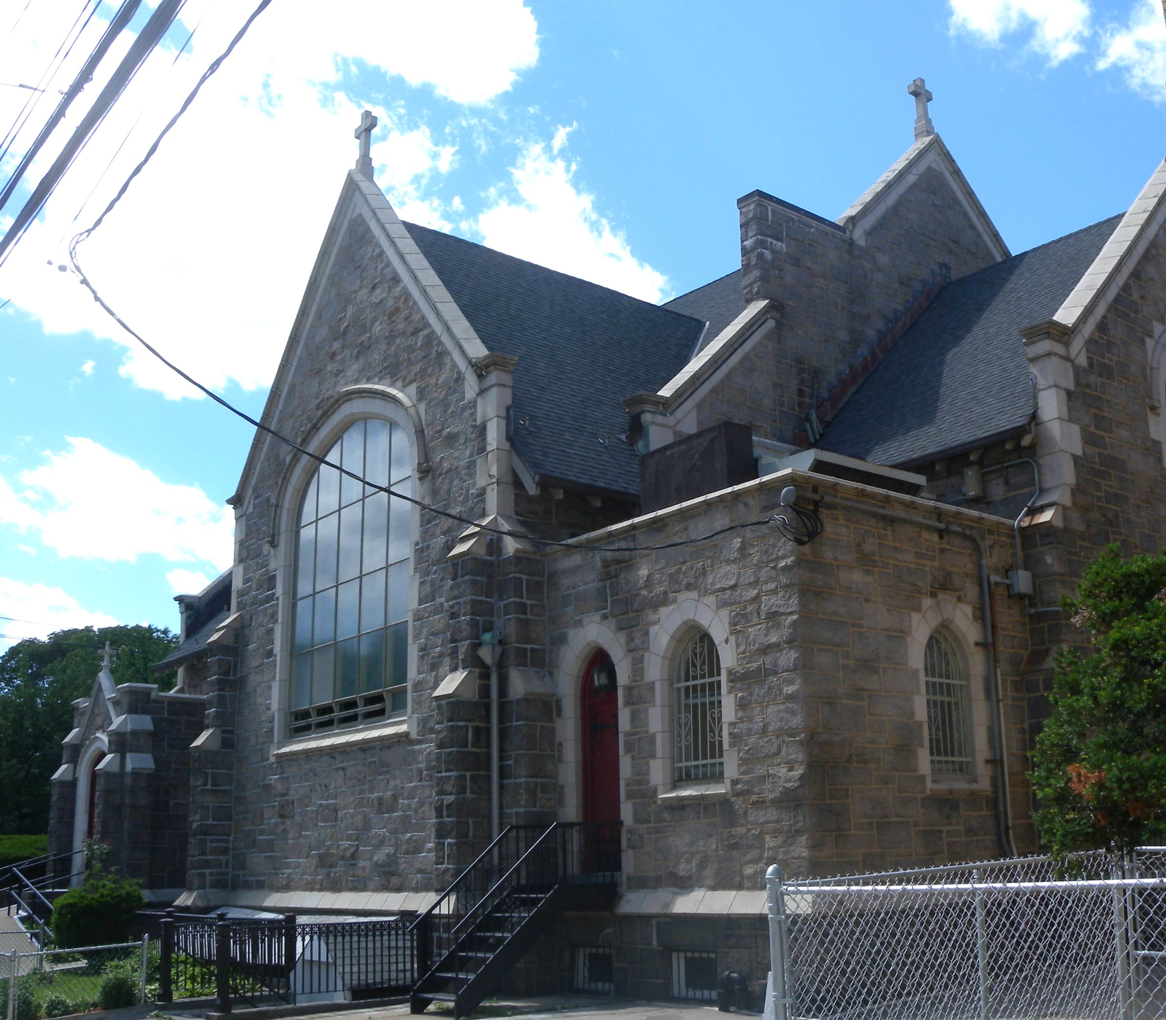 Looking northwest from Lawrence Street, at Church of St Denis on a sunny early afternoon.